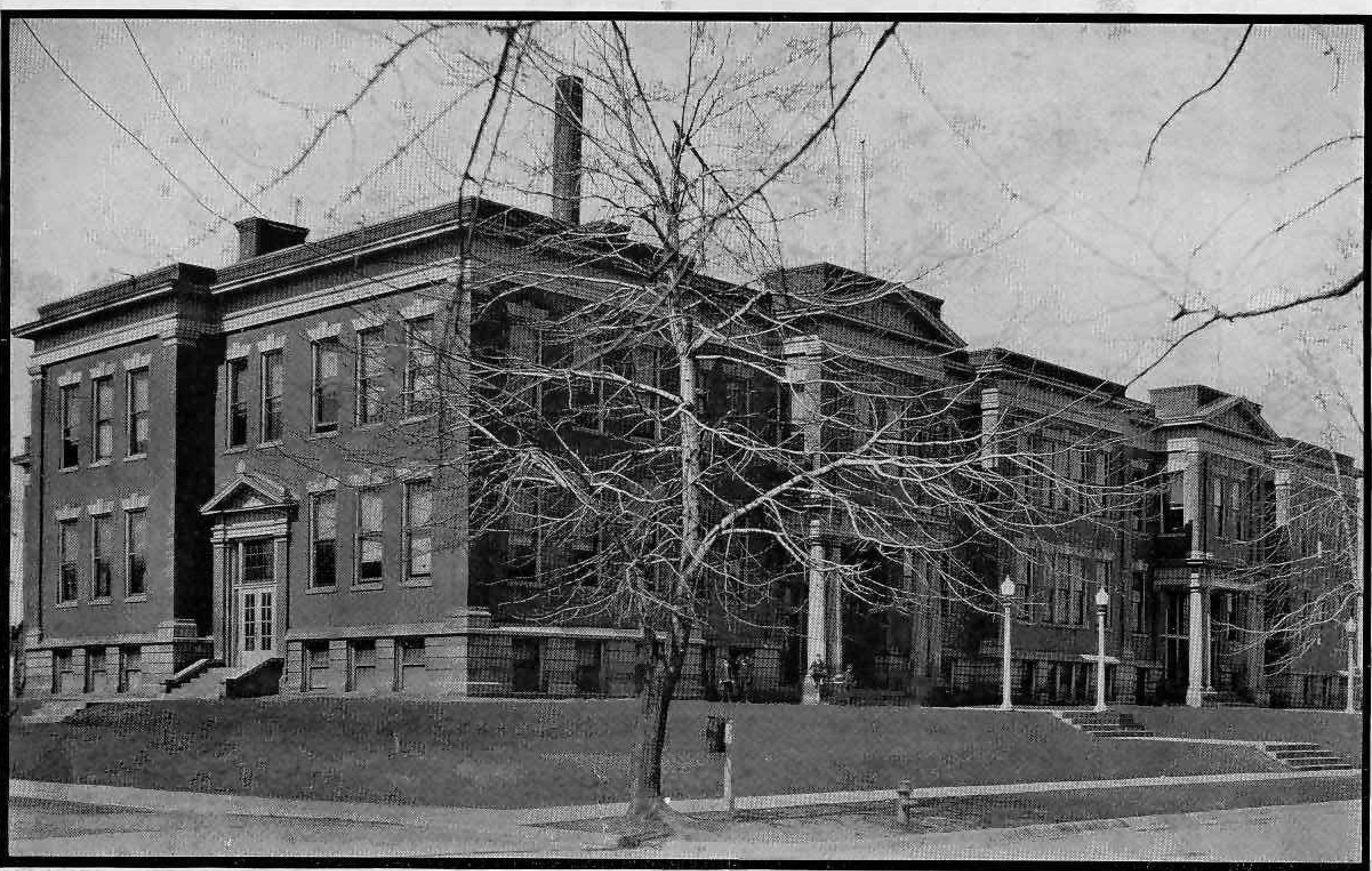 Hartford City High School (Indiana) from 1922-23 yearbook